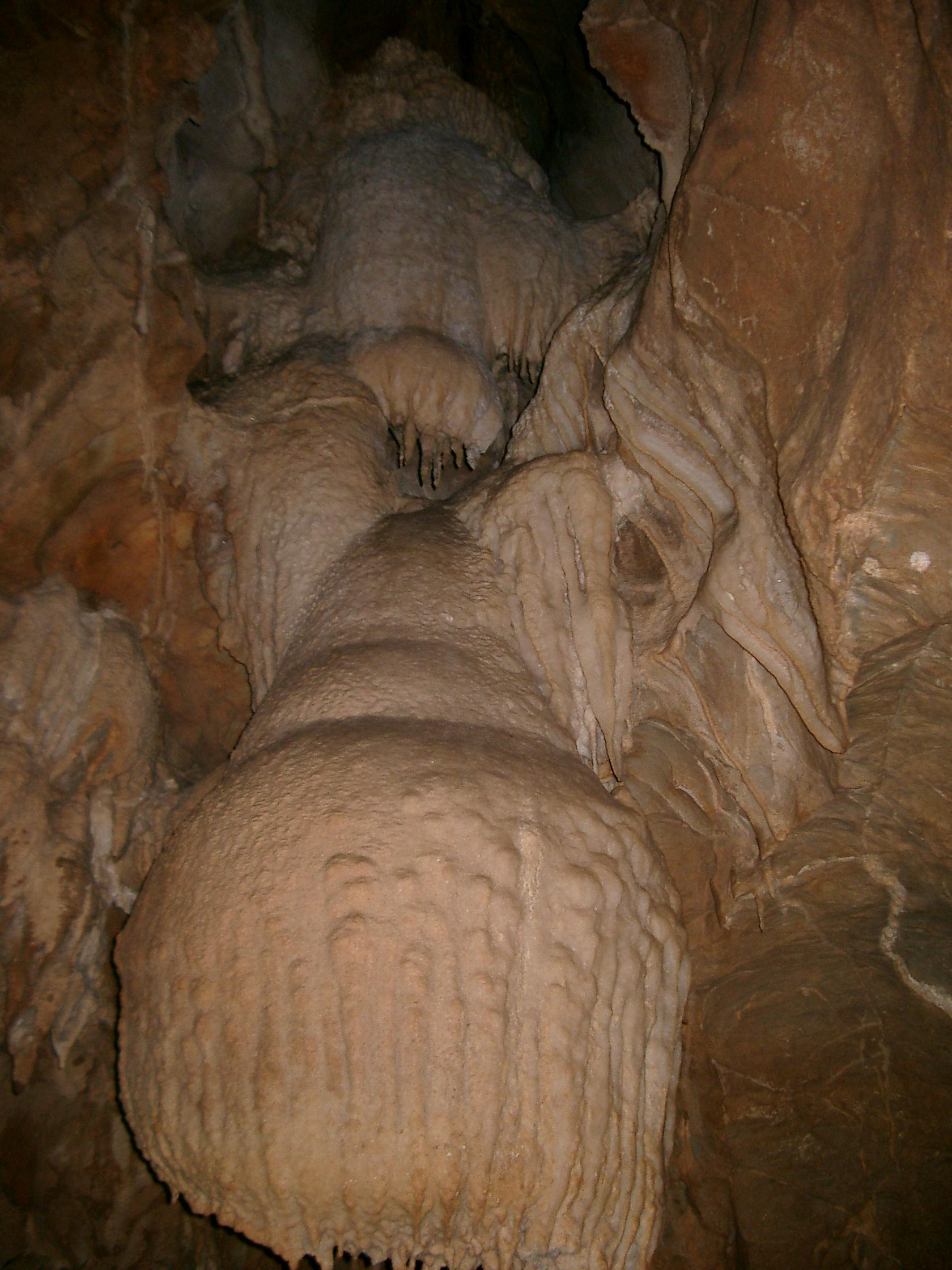 In the Katafygi Cave, Peleponnes, Greece